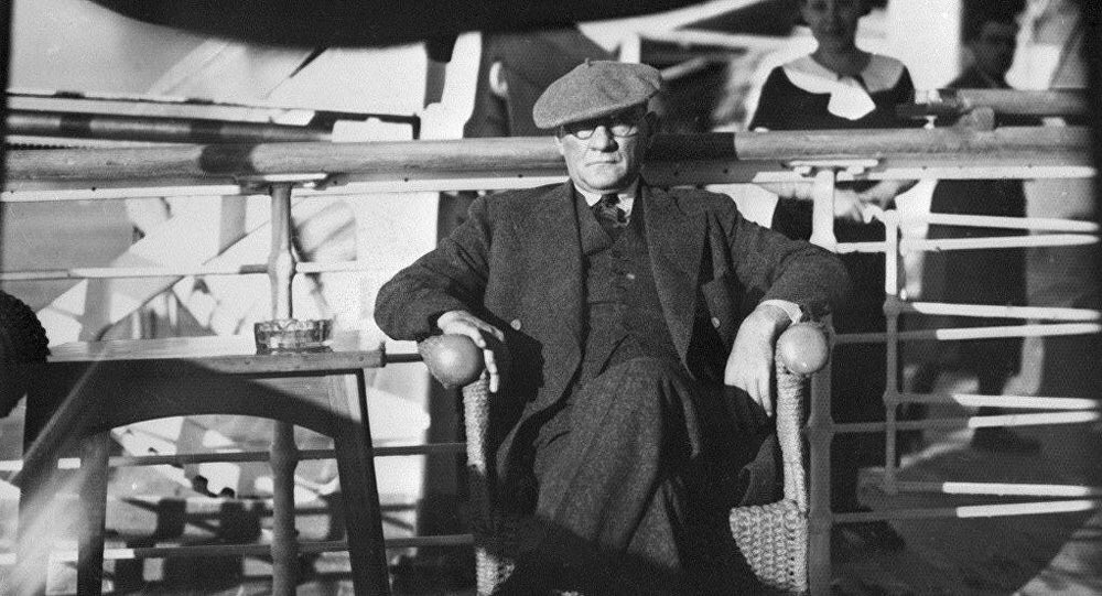 Kemal Atatürk (or alternatively written as Kamâl Atatürk, Mustafa Kemal Pasha until 1934, commonly referred to as Mustafa Kemal Atatürk; 1881 – 10 November 1938) was a Turkish field marshal, revolutionary statesman, author, and the founding father of the Republic of Turkey, serving as its first President from 1923 until his death in 1938. He undertook sweeping progressive reforms, which modernized Turkey into a secular, industrial nation. Ideologically a secularist and nationalist, his policies and theories became known as Kemalism. Due to his military and political accomplishments, Atatürk is regarded as one of the most important political leaders of the 20th century.